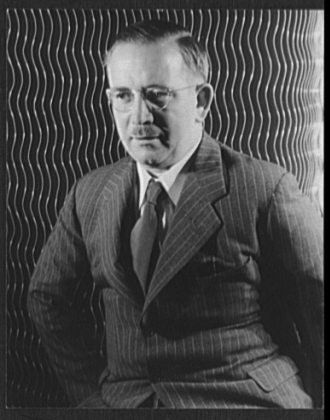 Photo of author Ralph Bates.Portrait of Ralph Bates, 1938